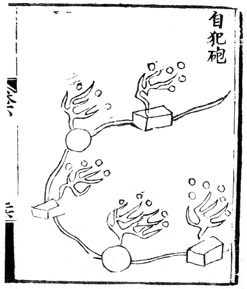 The 'self-tripped trespass land mine' from the Chinese military compendium of the Fire Drake Manual (Huolongjing), written by Jiao Yu and Liu Ji in the mid 14th century.